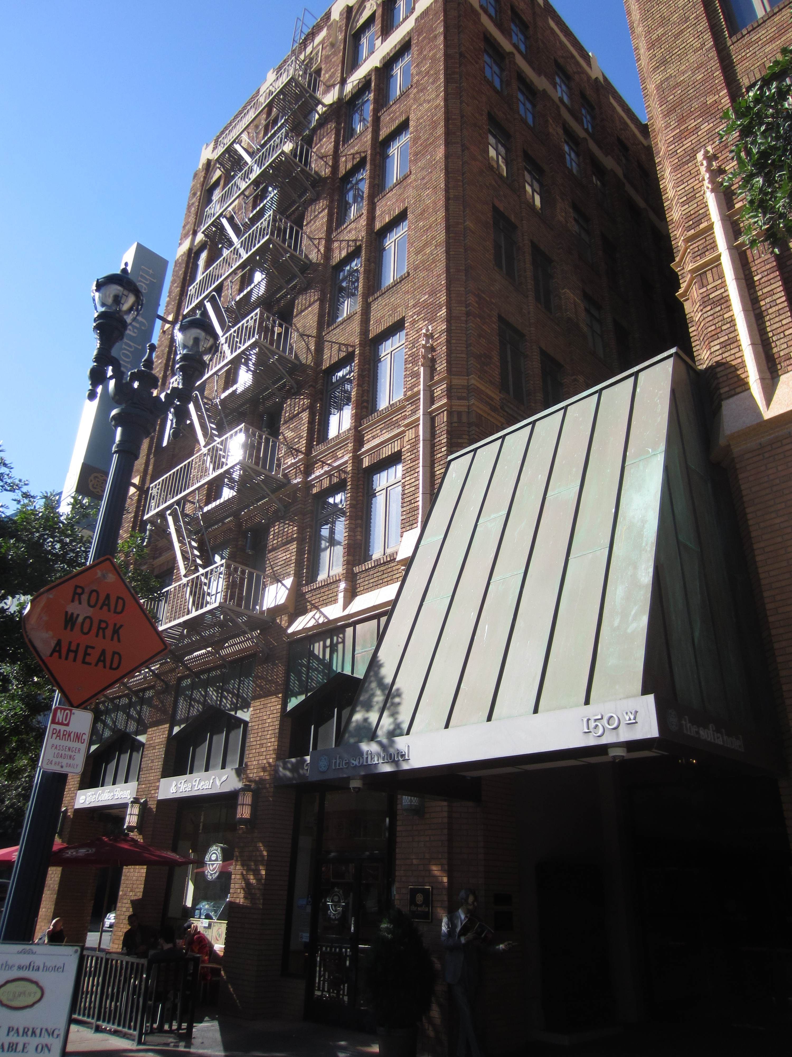 Sofia Hotel, San Diego, California, 2016